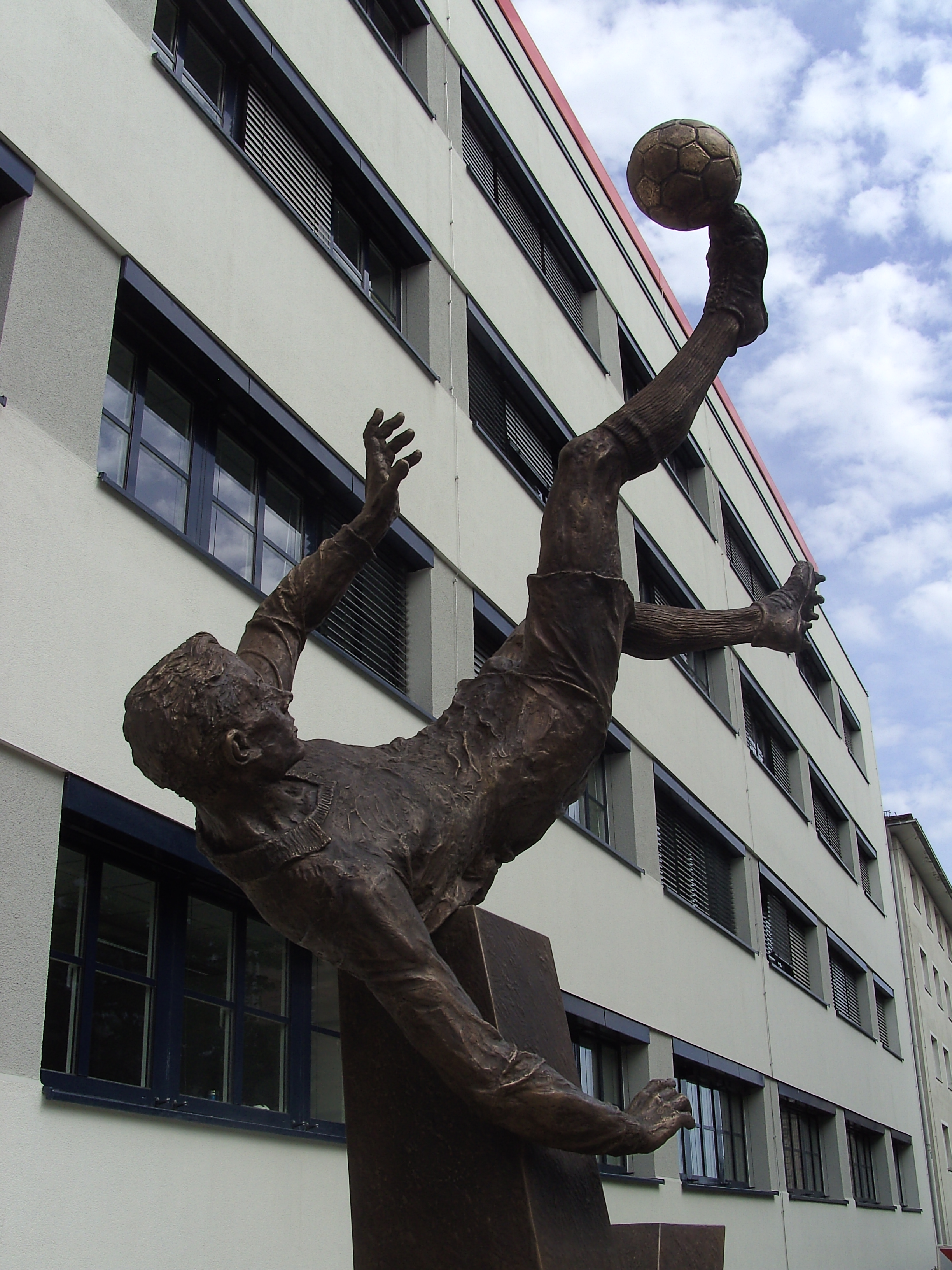 Kicker-Statue, Künstler Josef Tabachnyk, 2014 (Kicker-Sportmagazin in der Badstraße in Nurnberg)